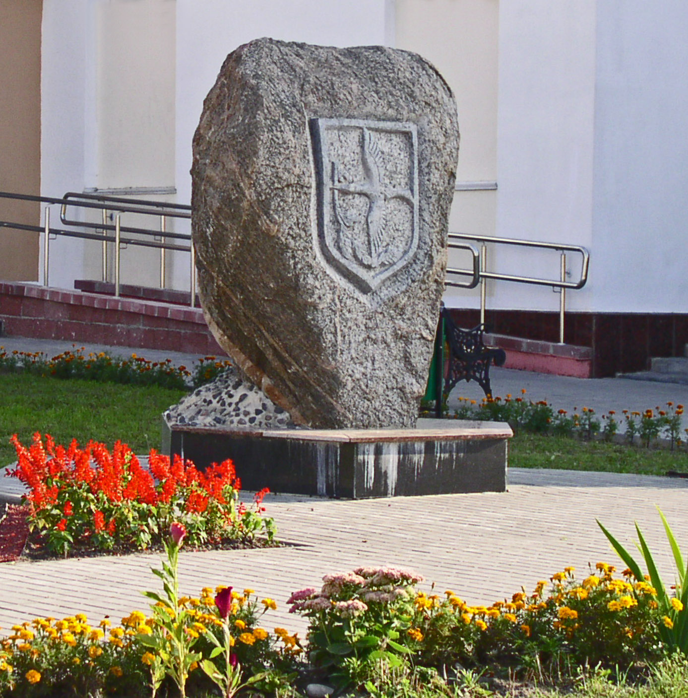 Stolin, Belarus the coat of arms